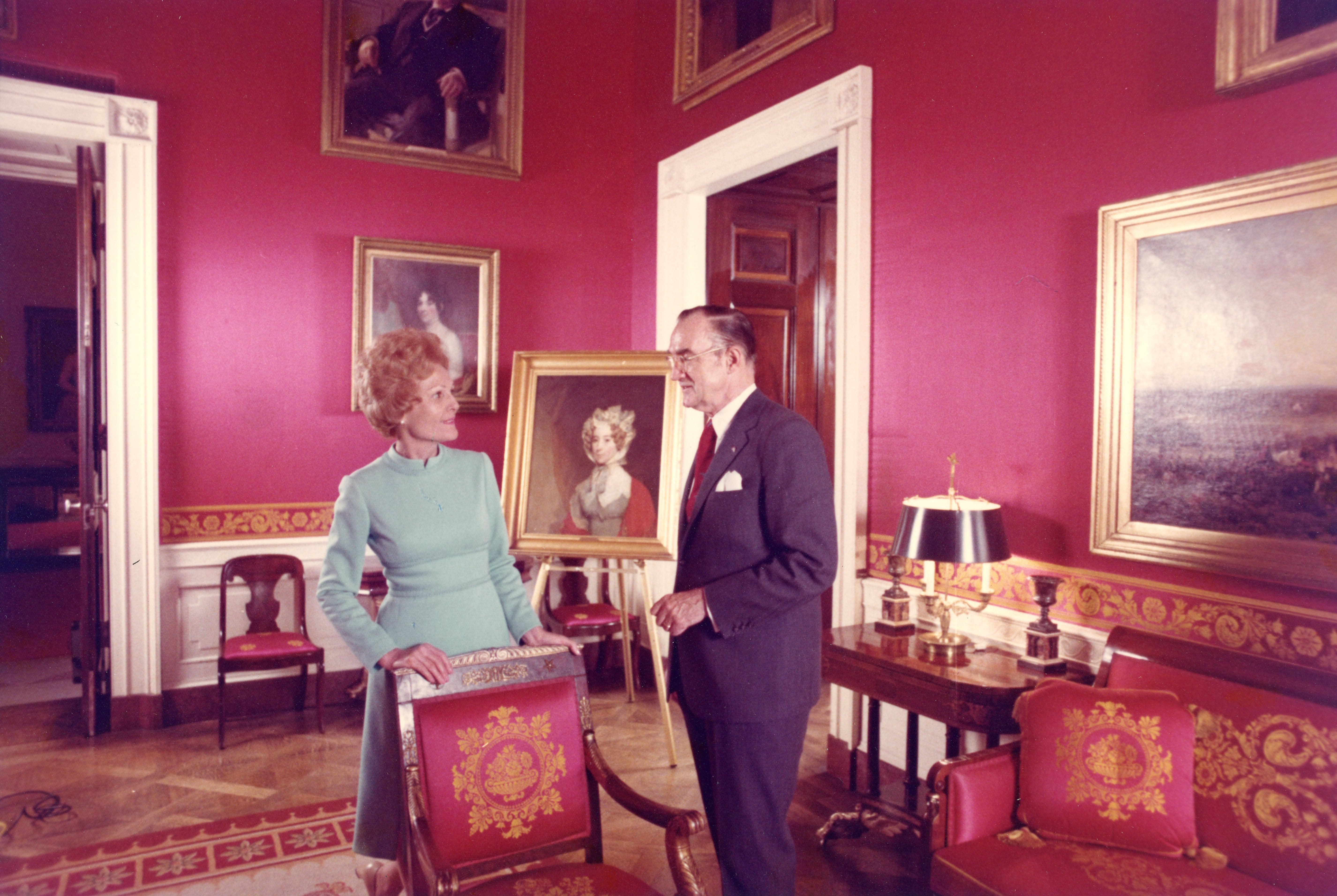 First Lady Pat Nixon in the White House Red Room with White House curator Clem Conger. Mrs. Nixon recently oversaw a redecoration of the Red Room. WHPO C5596-16